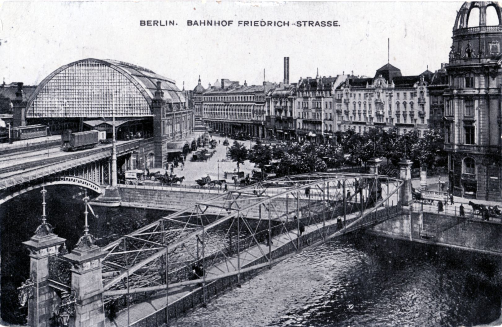 Berlin Friedrichstrasse station, the station parade with cabs, railway bridge and Schlütersteg around 1900; view east across the river Spree. Note the hexagonal fountain(?) behind the first tree.